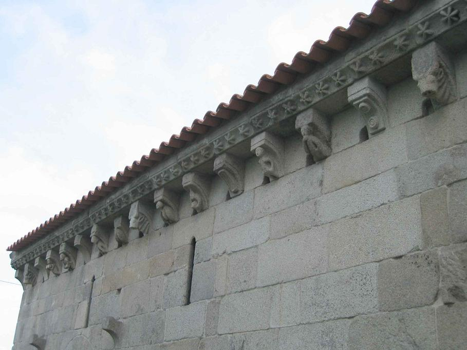 Romanic Church of Boelhe